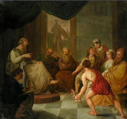 Diogenes brings a plucked chicken to Plato.